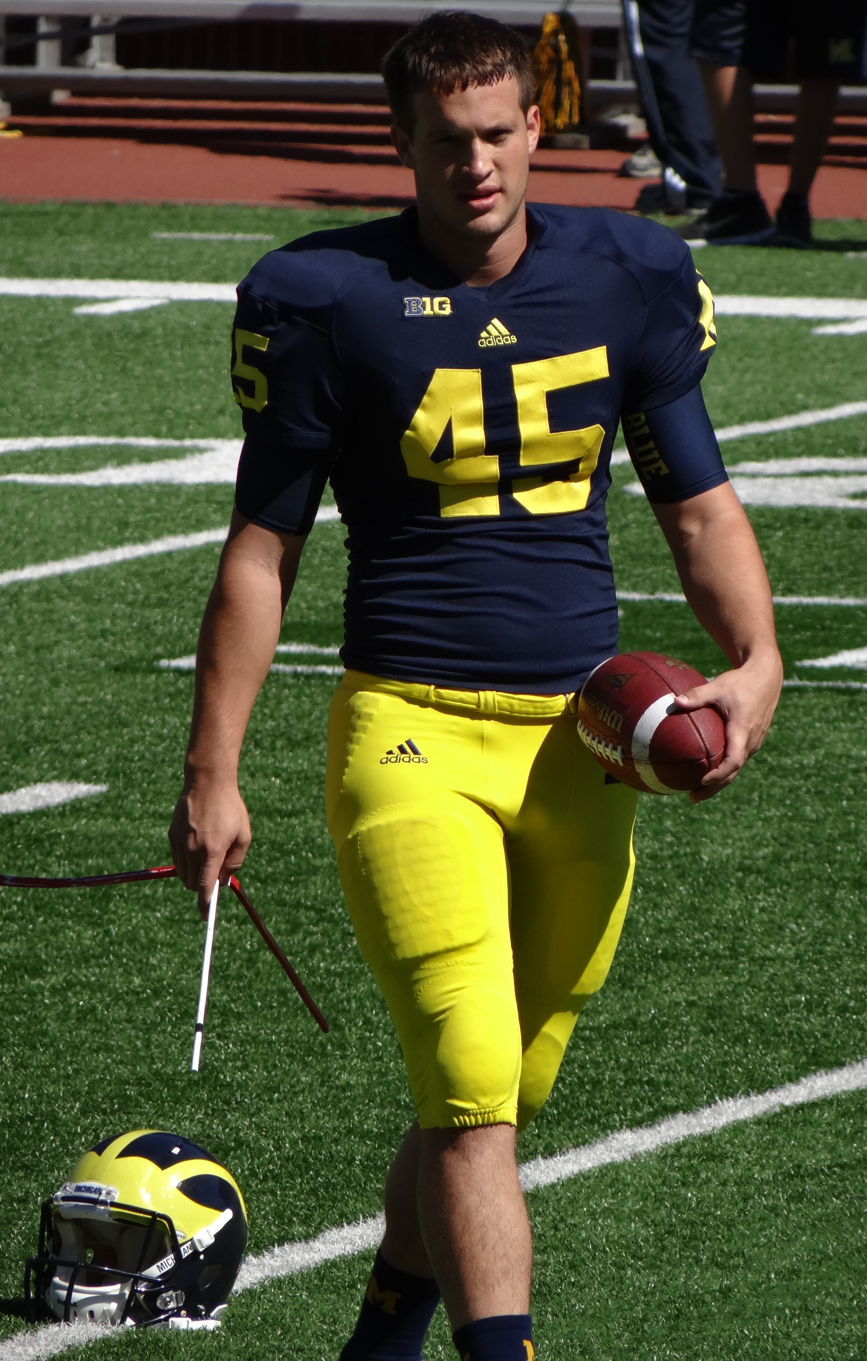 Matt Wile during pre-game warmup against UMass